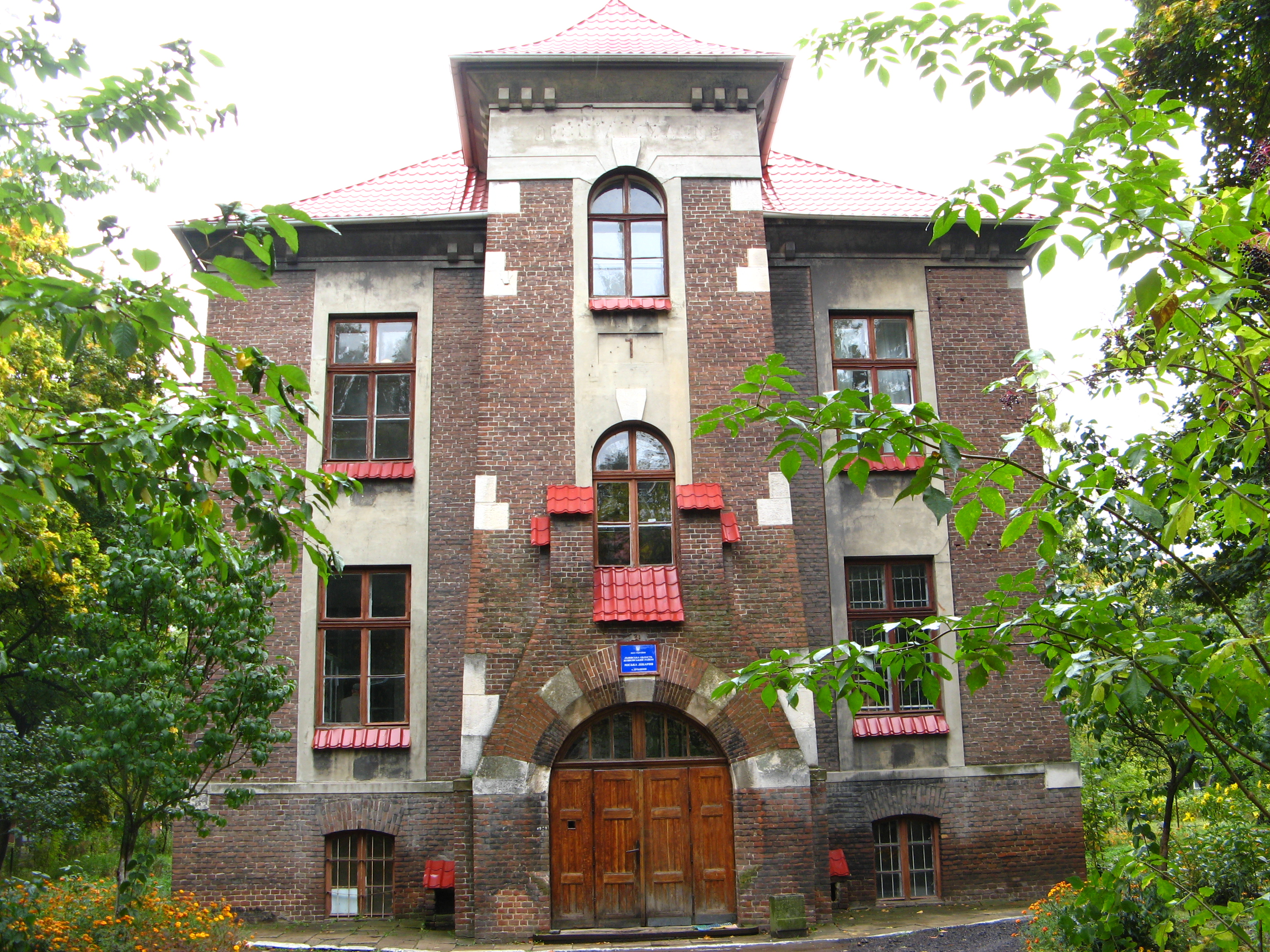 Agricultural Academy in Dublany (now hospital)